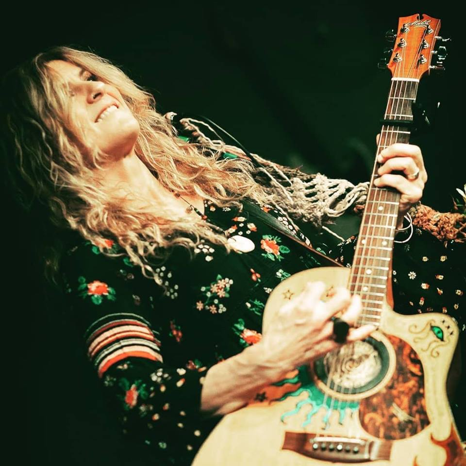 Live performance of Jane Kitto photo taken by Heikki Sarkala of HS Photography at Graceville Iisalmi Finland 2018